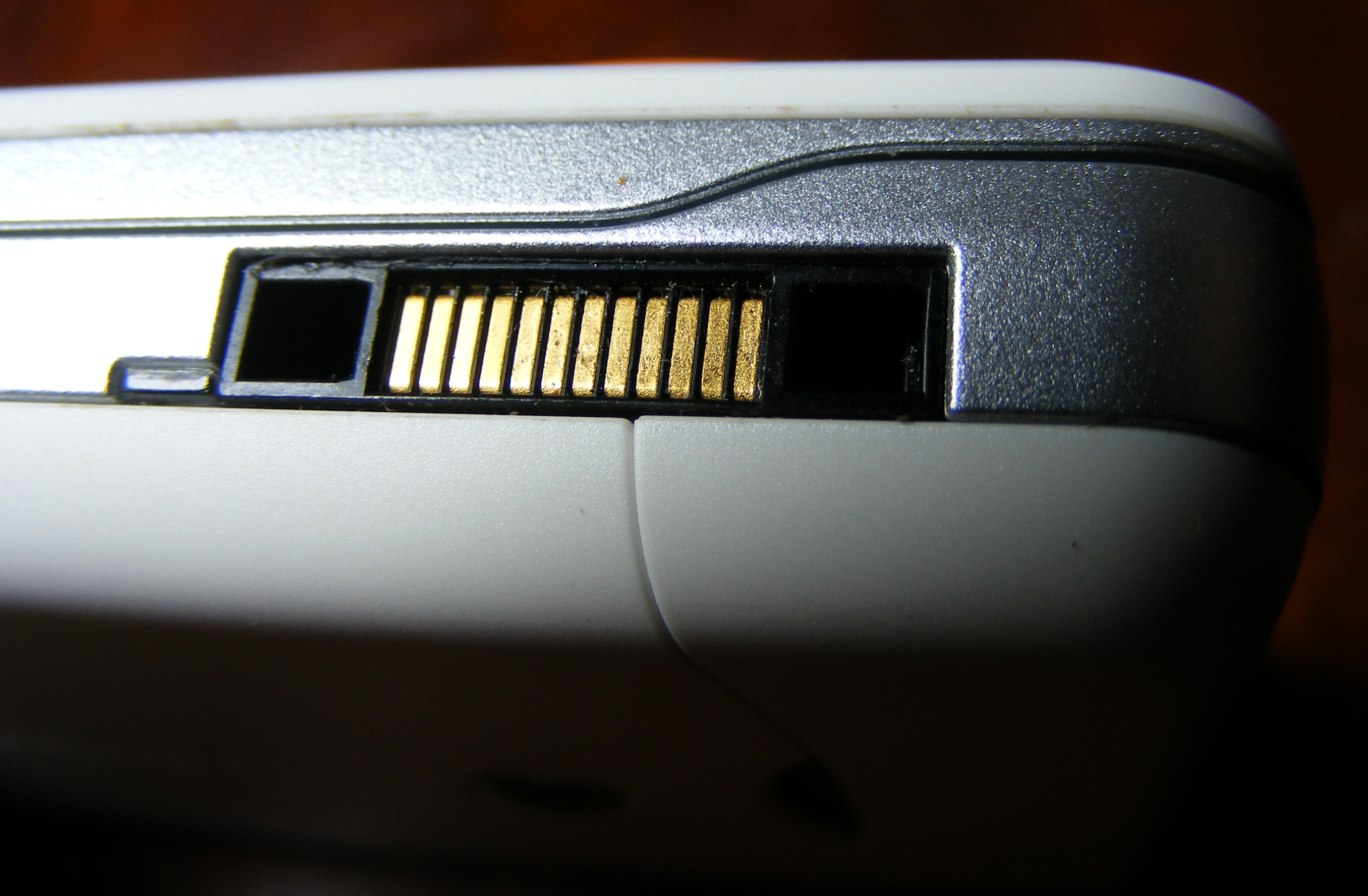 A picture of the FastPort on a Sony Ericsson W205 mobile phone.